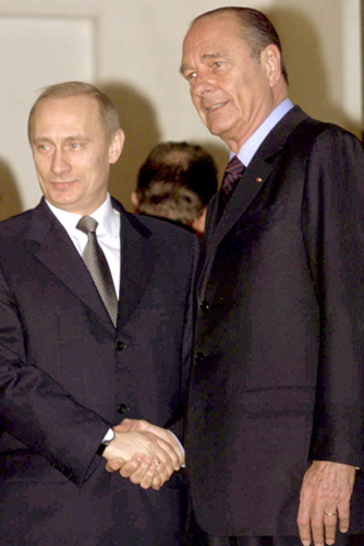 PARIS. President Putin with French President Jacques Chirac.